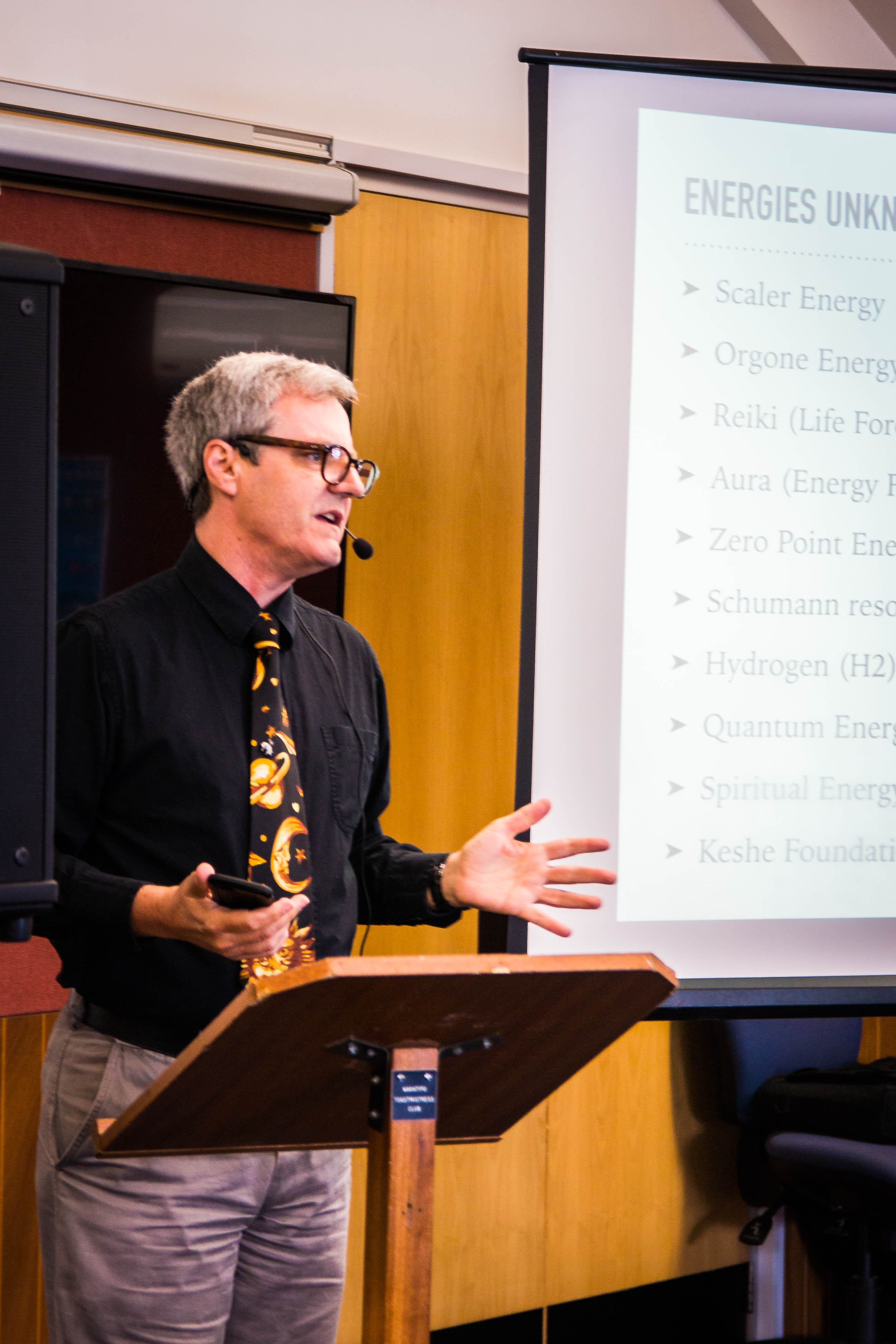 Richard Saunders speaking at NZ Skeptics Conference 2016